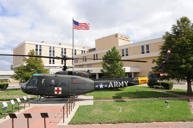 photo of Darnall Hospital, Fort Hood, TX